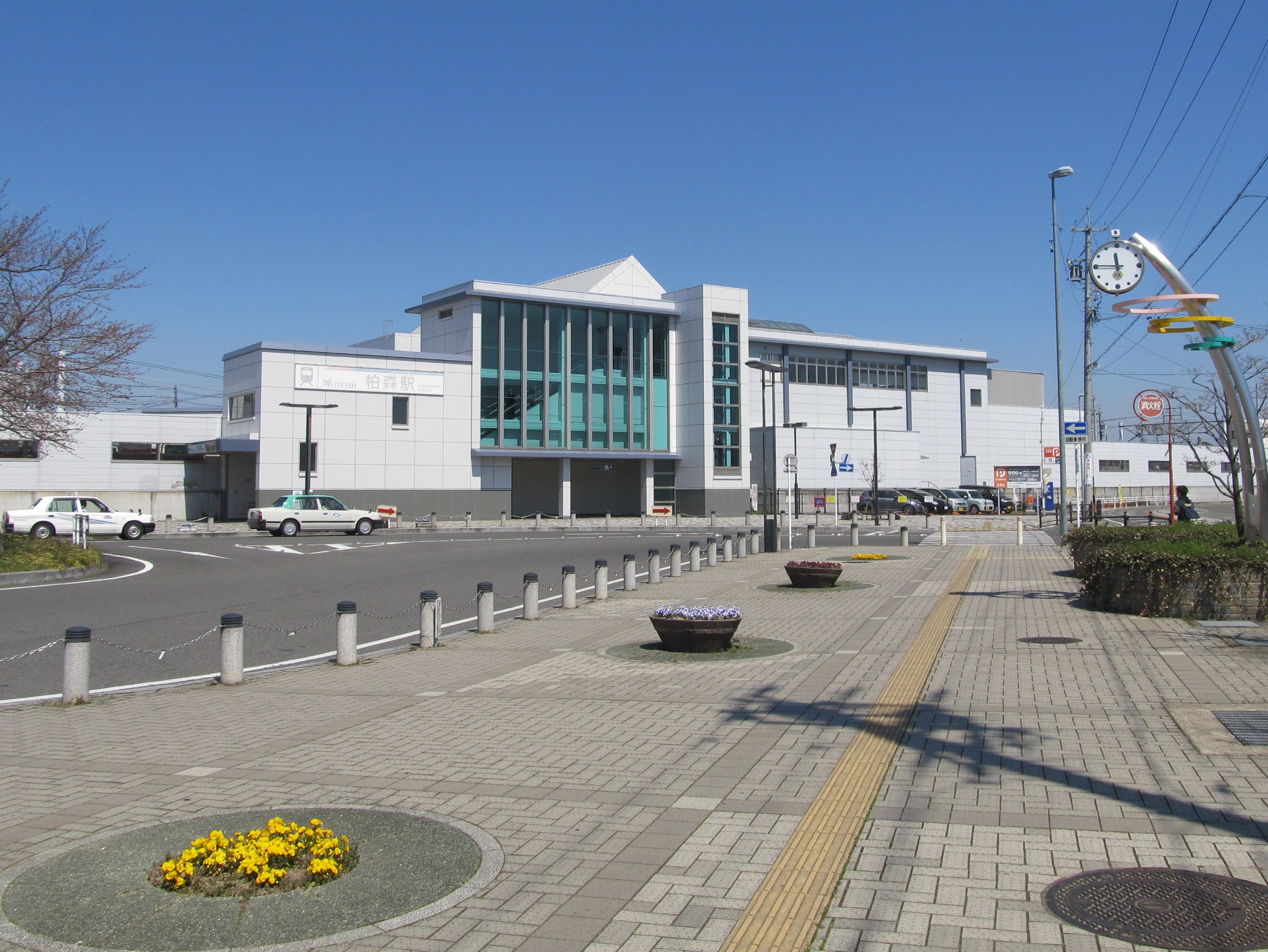 Nagoya Railroad Inuyama Line Kashiwamori Station South Gate.